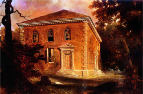 Painting of ʽPohick Churchʼ by ʽJohn Gadsby Chapmanʼ